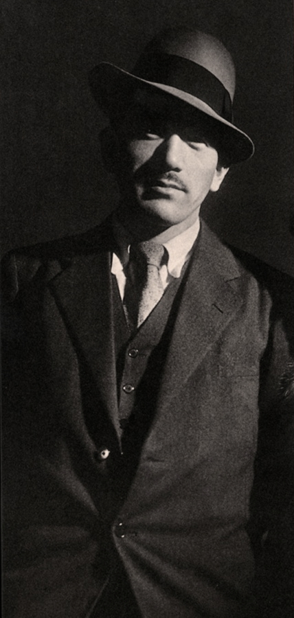 Yasujirō Ozu (12 December 1903–12 December 1963)